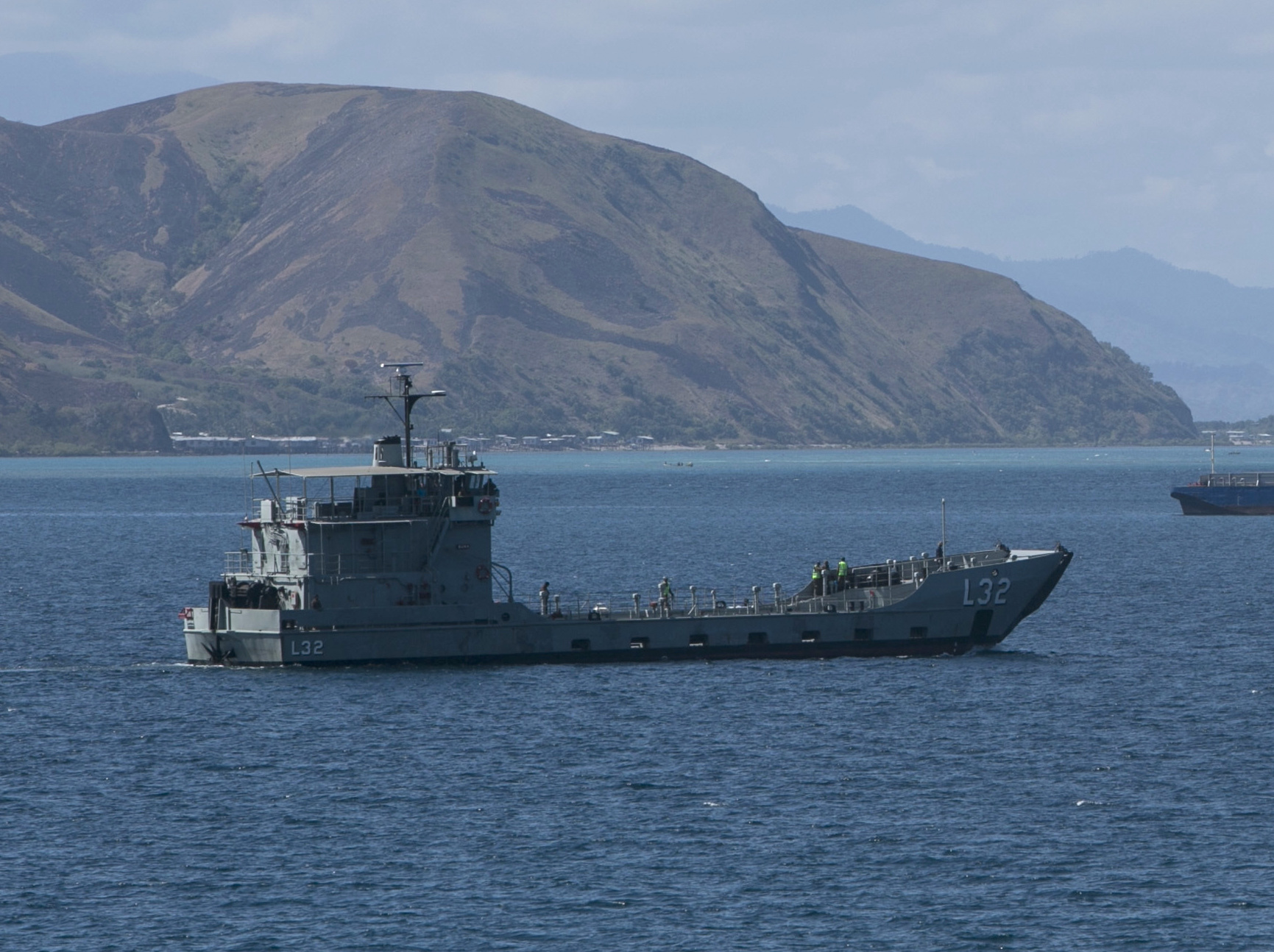 A Papua New Guinean naval ship heads toward USNS Sacagawea (T-AKE 2) for Task Force Koa Moana to disembark their gear and personnel, off the coast of Port Moresby, Papua New Guinea, June 17, 2016. This marks the first time the Papua New Guinea Defence Force and U.S. Marines will train together directly. Papua New Guinea is the second of four destinations for the task force during their deployment in the Asia-Pacific region. Their deployment consists of multiple multi-national, bilateral exercises designed to increase the interoperability and relations between participating nations by sharing infantry, engineering, law enforcement and medical skills. The Marines and Sailors are originally assigned to I and III Marine Expeditionary Force. (U.S. Marine Corps photo by Cpl. William Hester/ Released)